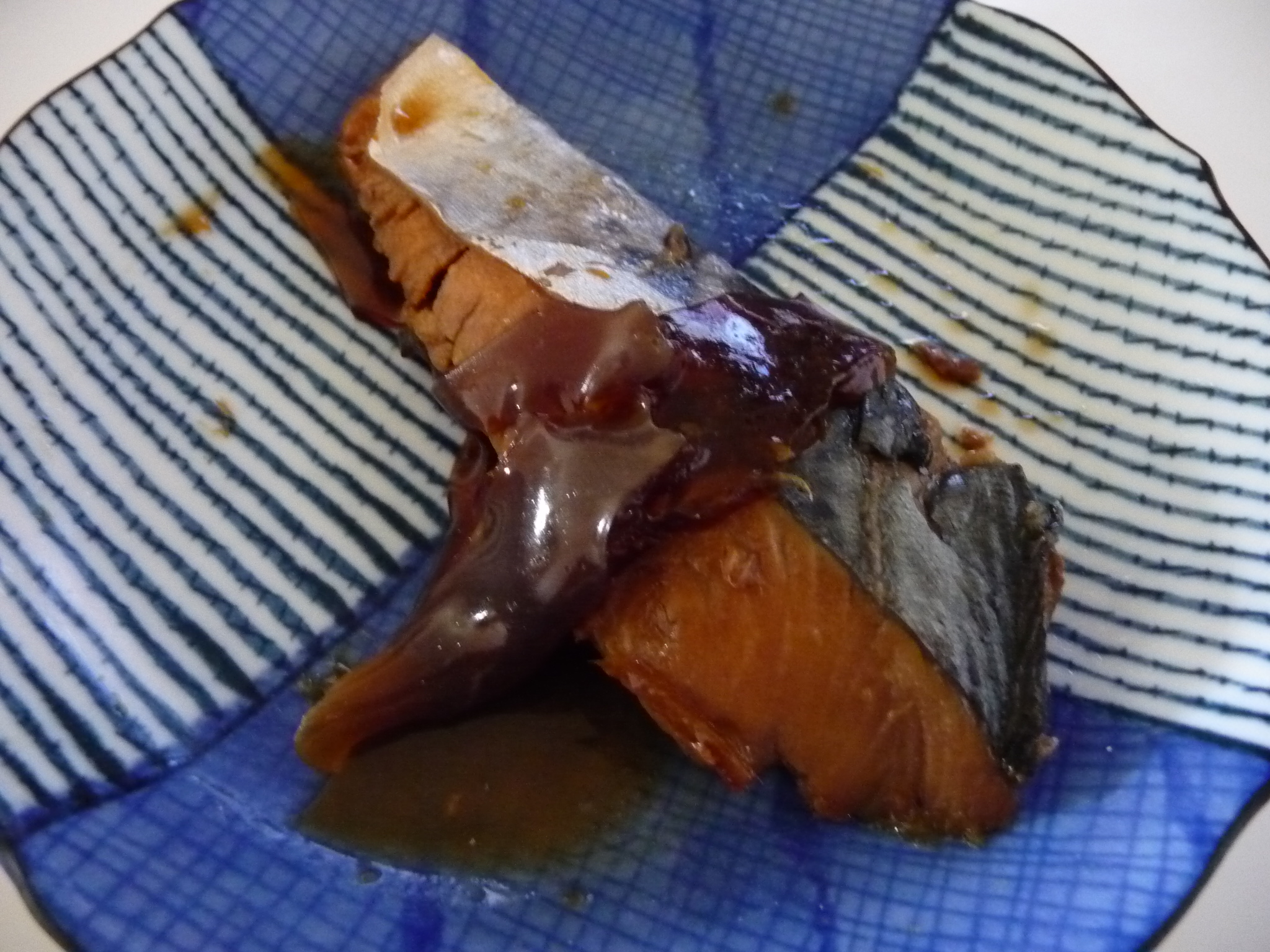 Congealed gelatin of boiled fish fillet on a dish. The species of fish is Japanese Spanish mackerel, Scomberomorus niphonius.[1] It is boiled with soy sauce and then kept in a refrigerator at 8 °C (46,4 °F). In Japan any soup or sauce with congealed gelatin is called 煮凝り (Nikogori), literally 'boiled then become flocculated/stiffened'. It is not the result of intended cooking but occurs naturally, when heated meat stored in a cool environment releases fat in the form of gelatin.